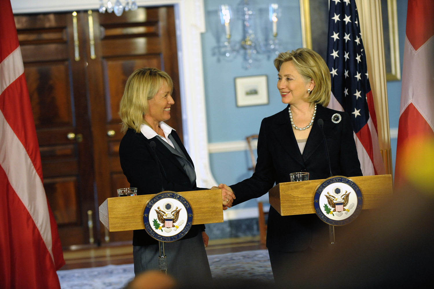 U.S. Secretary of State Hillary Rodham Clinton holds a bilateral meeting with Danish Foreign Minister Lene Espersen at the U.S. Department of State in Washington, D.C., on June 18, 2010. [State Department photo/ Public Domain]